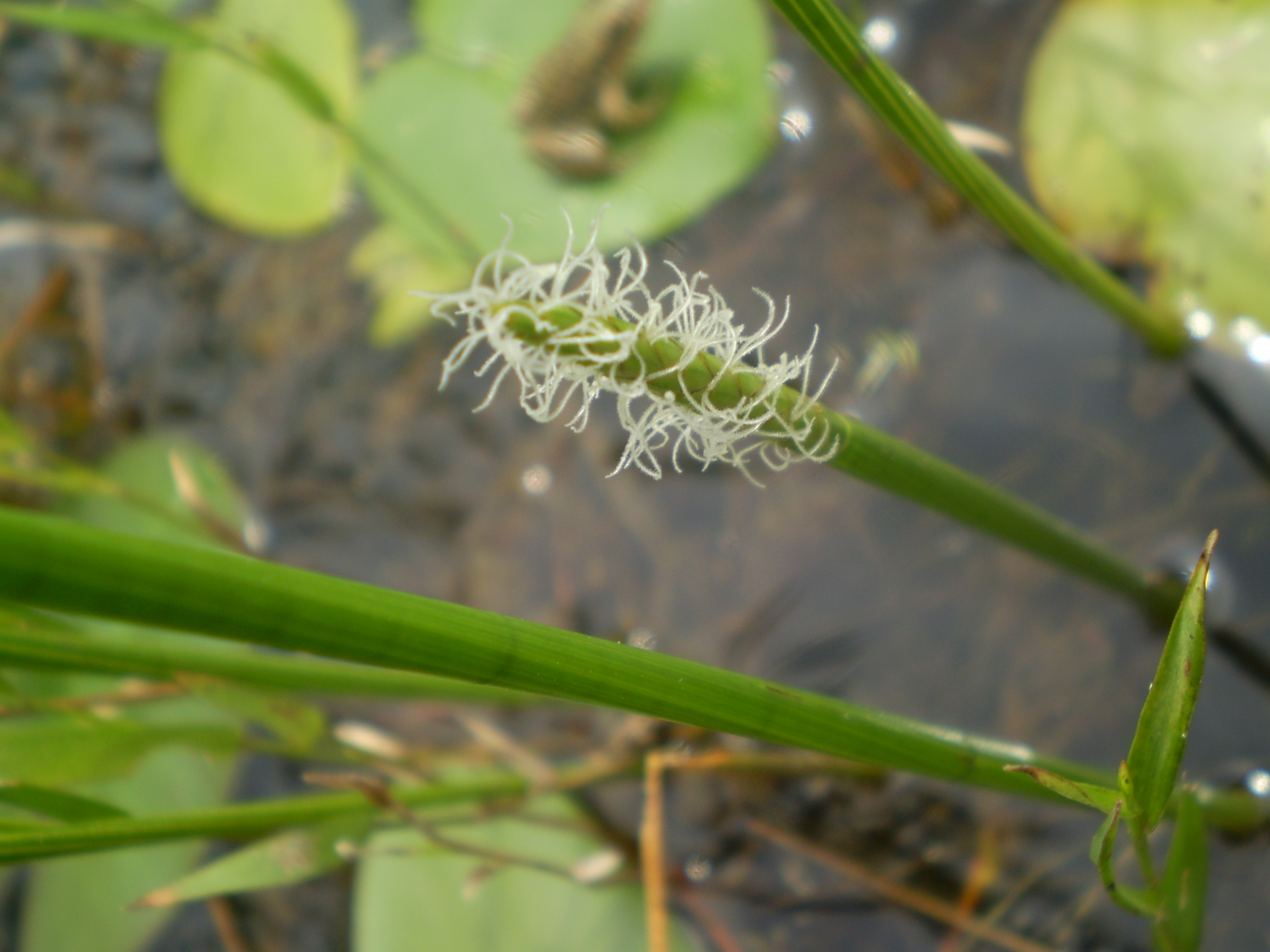 Eleocharis kuroguwai Ohwi Flower